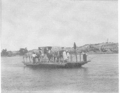 A ferry on the Neuquén river. The ferries were commonly used to move vehicles and pedestrians between Neuquen and Cipolletti before the construction of the highway bridge. On the right is visible the recent constructed railway bridge.